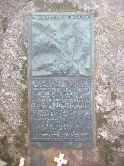 Great Gable - Summit Plaque. Plaque on the summit of Great Gable - Members of the Fell & Rock Climbing Club who died in the 1914 - 1918 war. Photo taken in thick mist. No views of anything from the summit at that time.